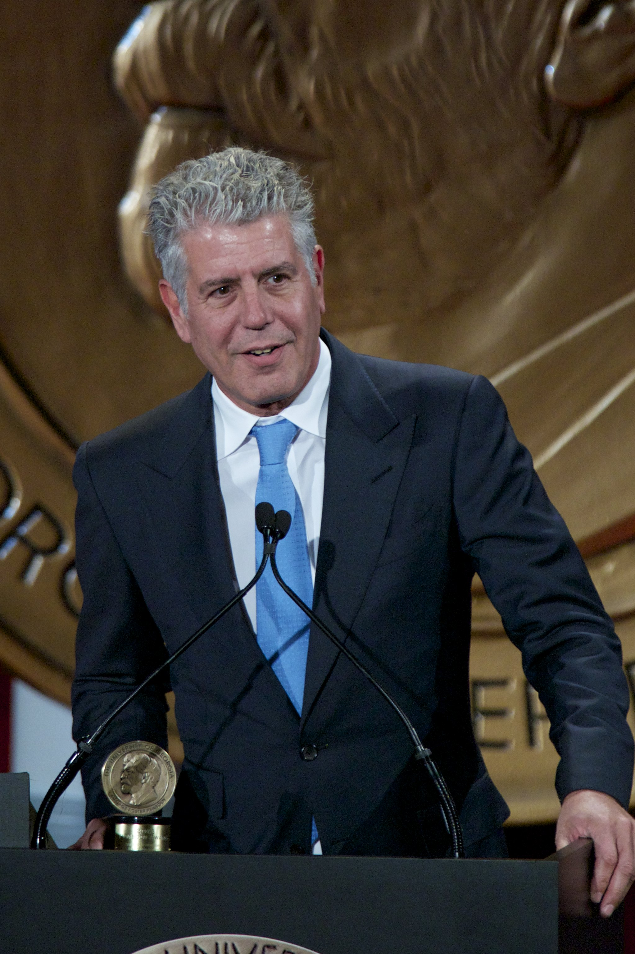 Anthony Bourdain accepts a Peabody Award for Parts Unknown.